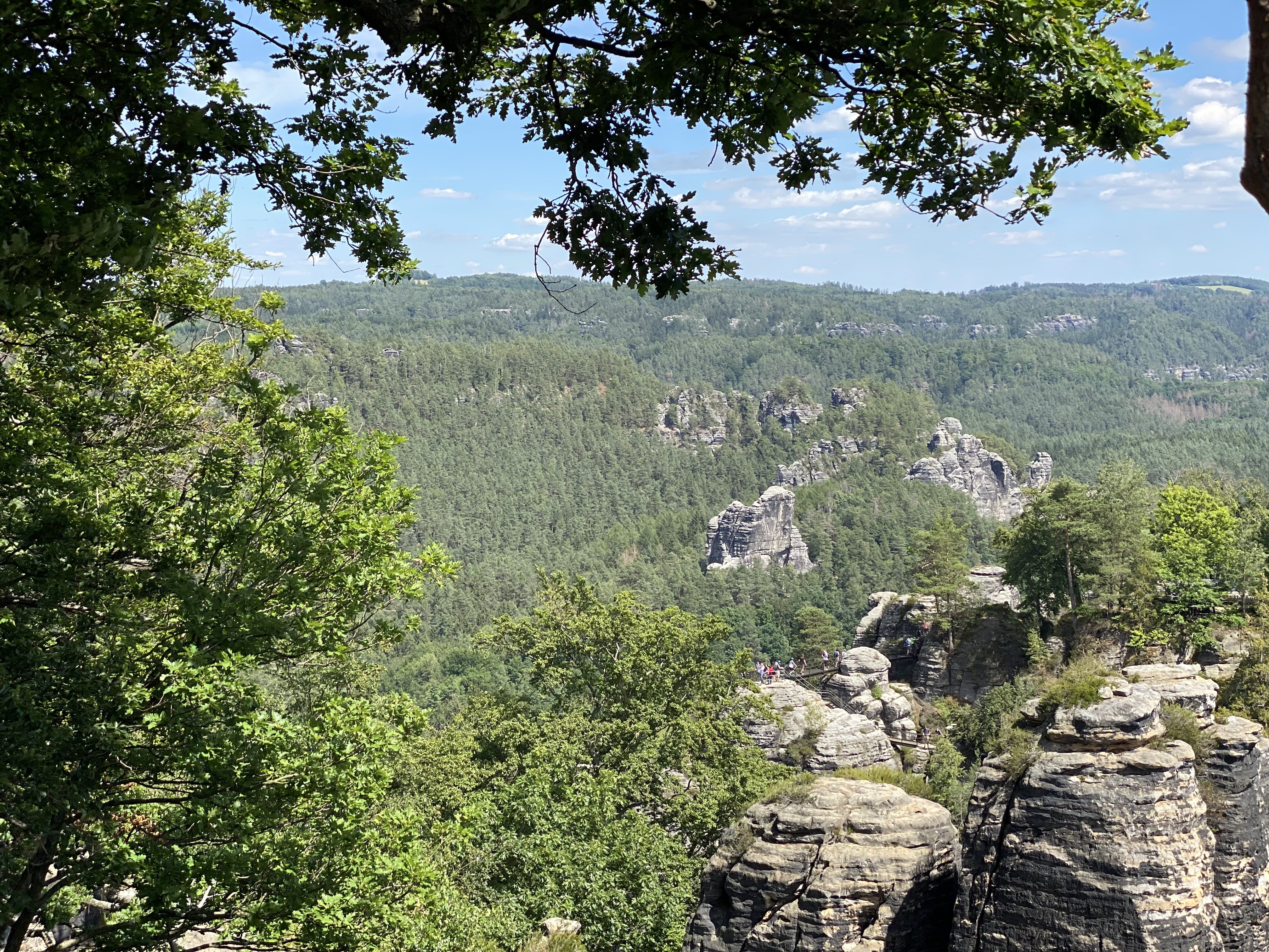 The view of Saxon Switzerland landscape and cliffs from the Bastei bridge.